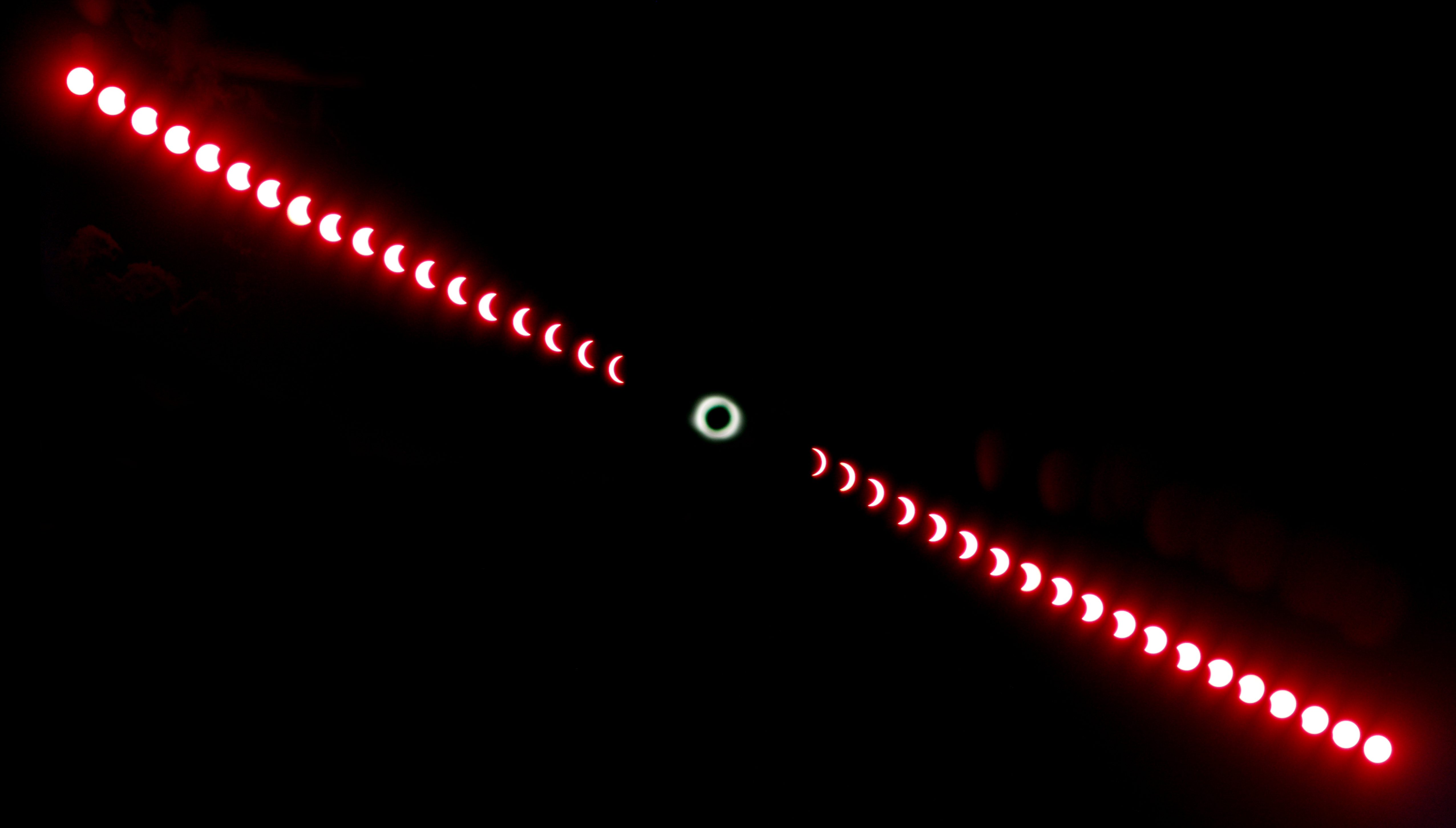 The progression of Solar eclipse of August 1, 2008 in Novosibirsk, Russia. Time span between shots is 3 minutes.